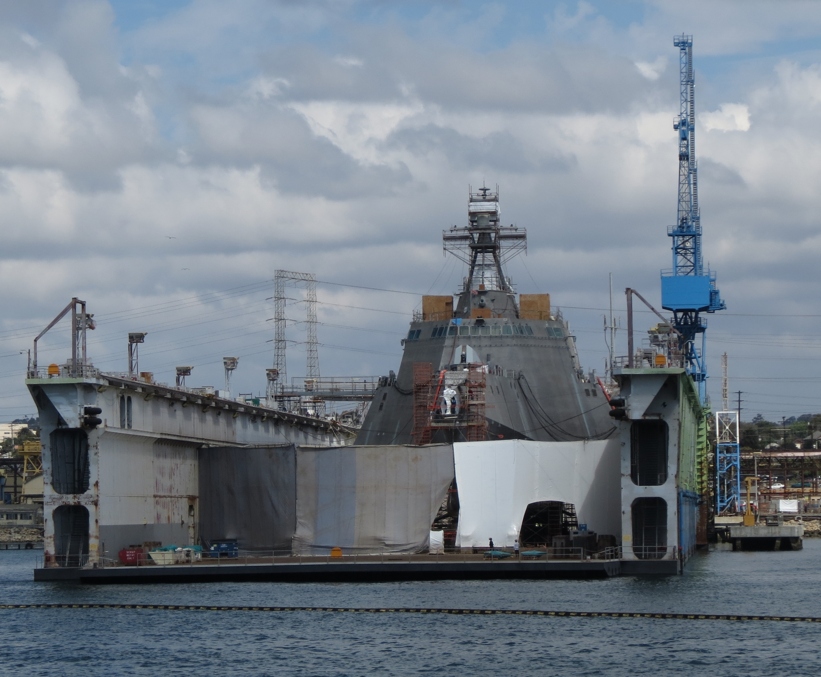 The U.S. Navy littoral combat ship USS Independence (LCS-2) in drydock, San Diego, California (USA), 10 October 2012.